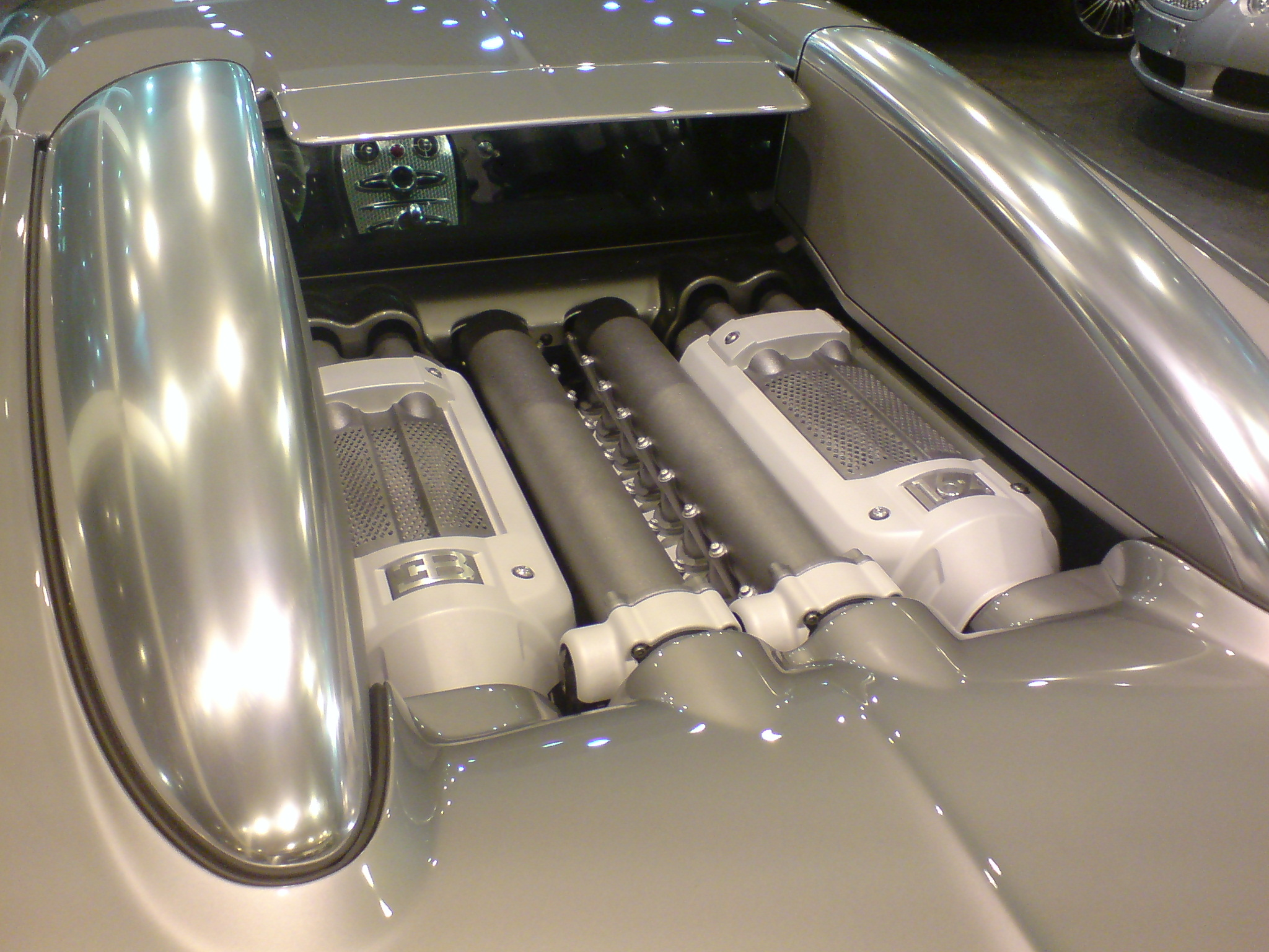 Bugatti Veyron 2008, Veyron's W16, 8.0 cc engine with 4 turbo charges.